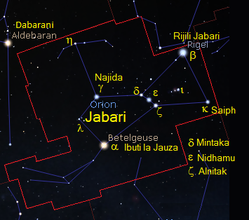 Constellation Orion as seen from Tanzania, Swahili labelled, close up Kiswahili: Kundinyota Jabari (Orion) jinsi inavyoonekana kutoka Tanzania, majina kwa Kiswahili, kisehemu